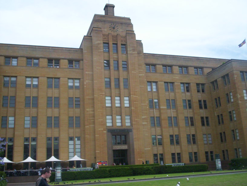 Museum of Contemporary Art, Sydney. I took the photo